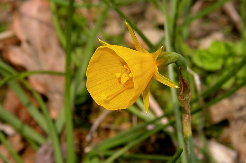 Narcissus bulbocodium in a garden in Gradignan, Gironde, France on 25 March 2005